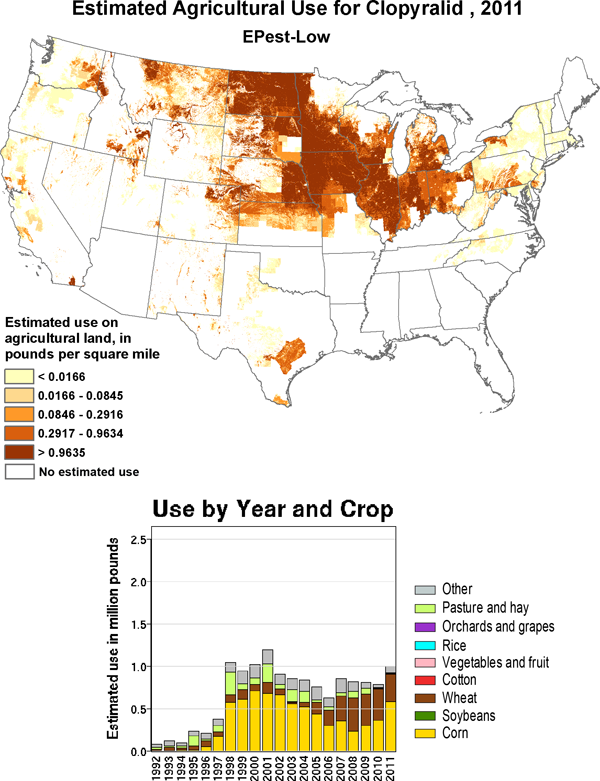 Clopyralid map of use, USA, 2011 (estimated)